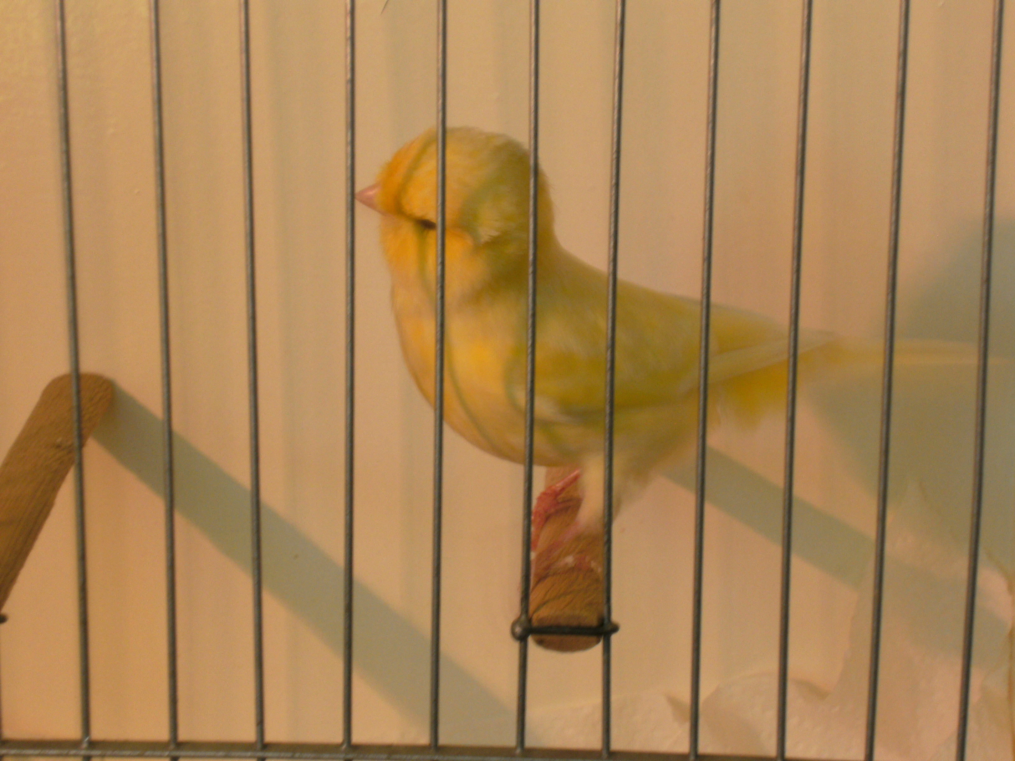 Male clear buff Australian Plainhead canary. This bird has not been colourfed.